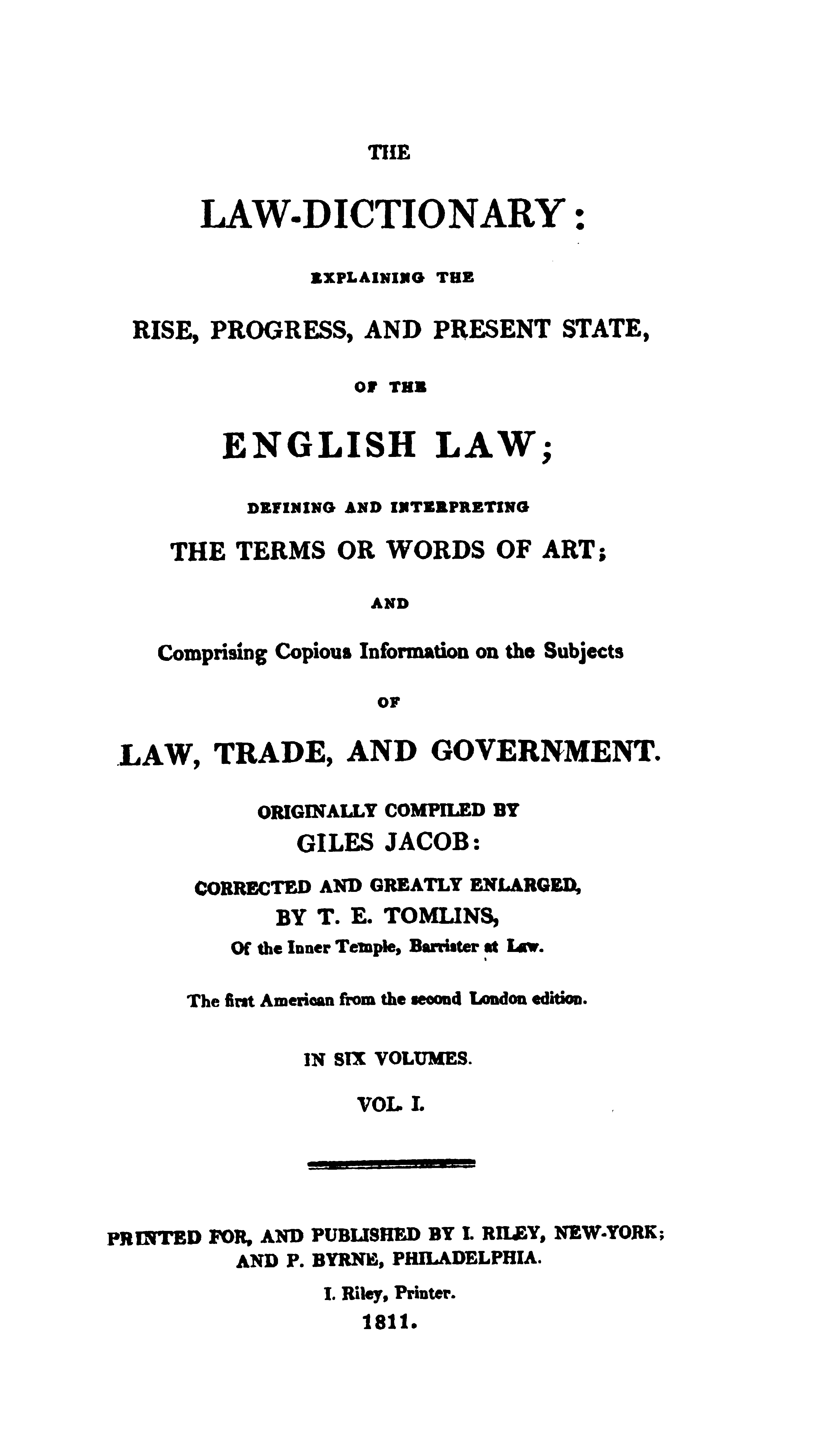 Title page from an 1811 edition of Giles Jacob's The New Law Dictionary. Image from New York Public Library 1909 copy; Google Books reproduction of a PD object with minor cleanup by Ellomate.